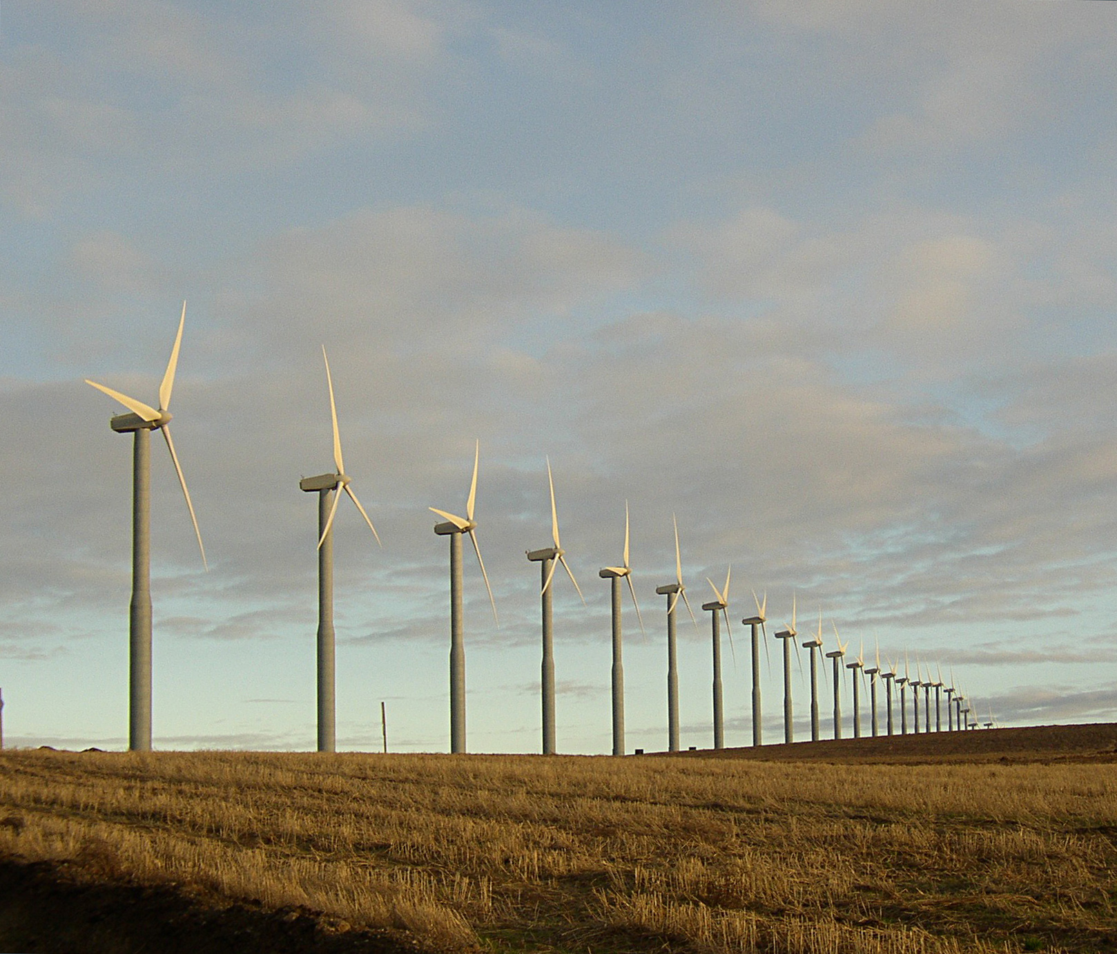 Wind turbines above Walla Walla River in Washington (January 2006). Photographed by Umptanum.